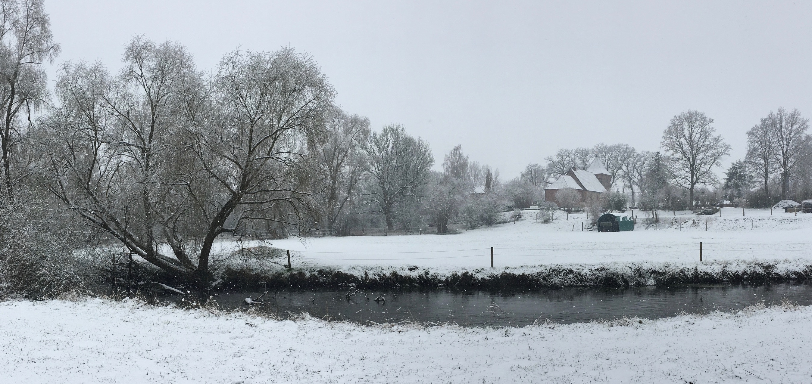 In the foreground you can see the river Ilmenau, which crosses the village Wichmannsburg. In the background the Wichmannsburg fieldstone church of St. George can be seen.